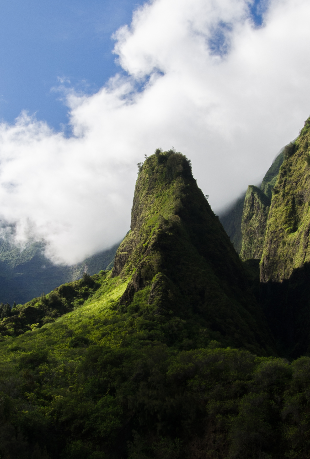 The Iao Needle, a formation in the Iao Valley in Maui, Hawaii. (Cropped version.)